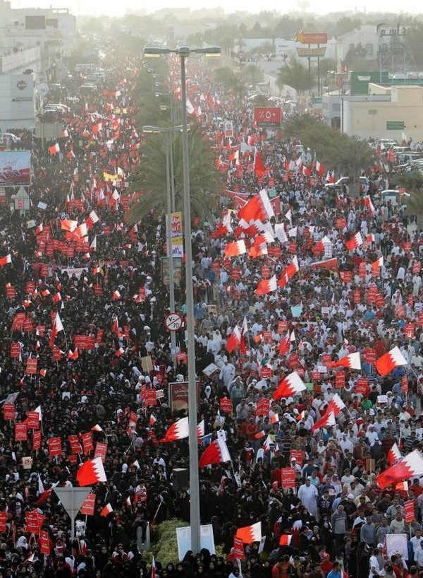 Hundreds of thousands took part in this huge protest on Friday, called for by Sheikh Isa Qassim